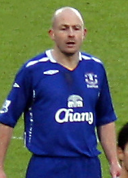 Lee Carsley. Image cropped from original at flickr.